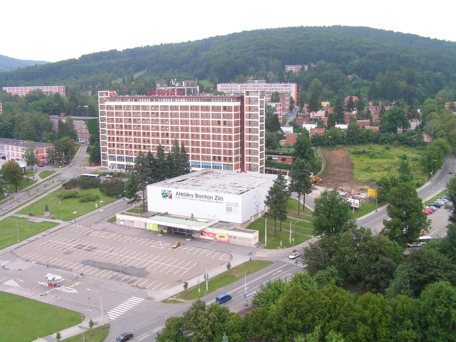 Zlín, hotel Moskva and Velké cinema.